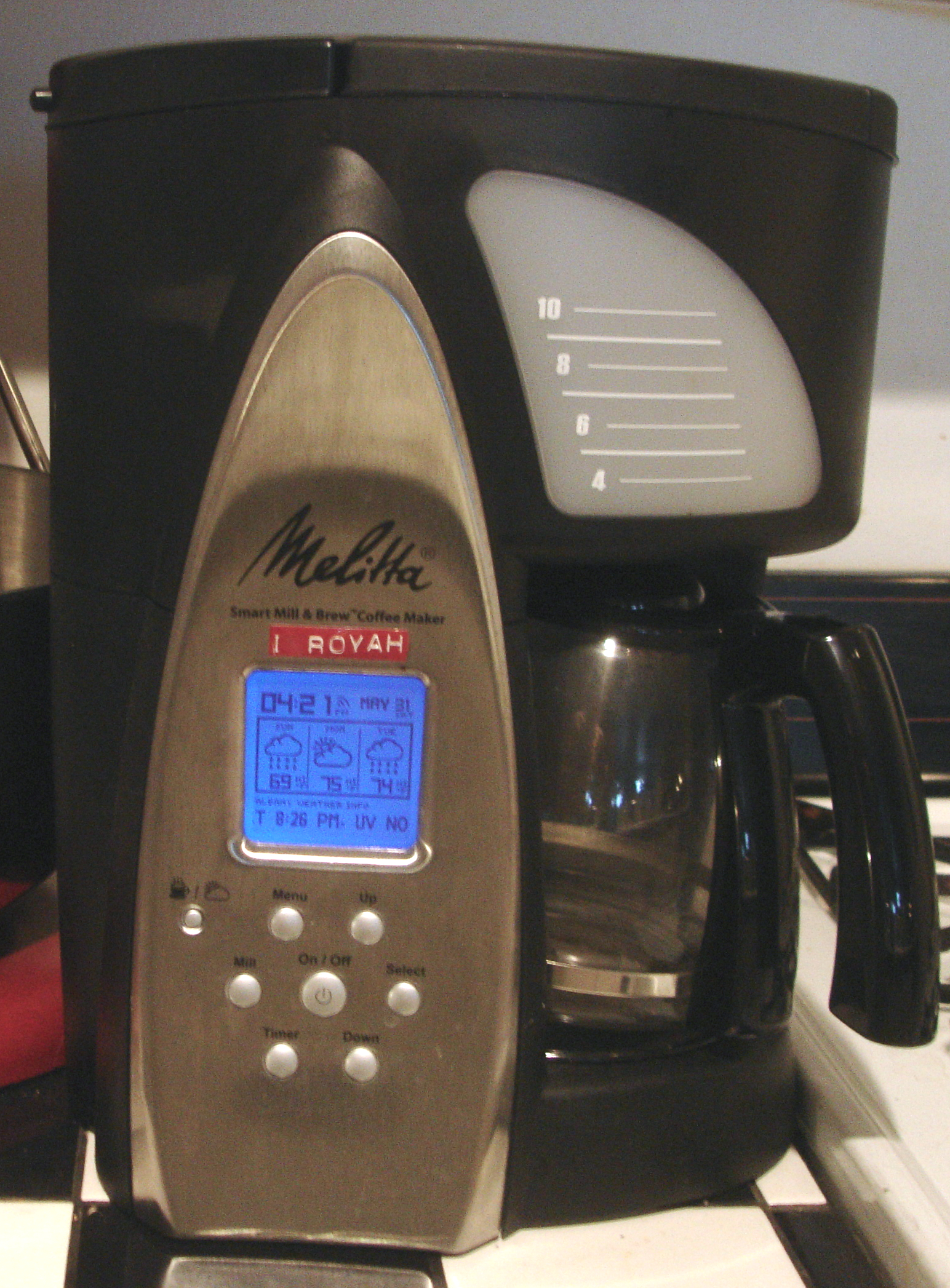 Melitta ME1MSB Smart Mill & Brew 10-cup programmable drip coffeemaker with built-in grinder and Smart Personal Objects Technology (SPOT) weather and news announcements.